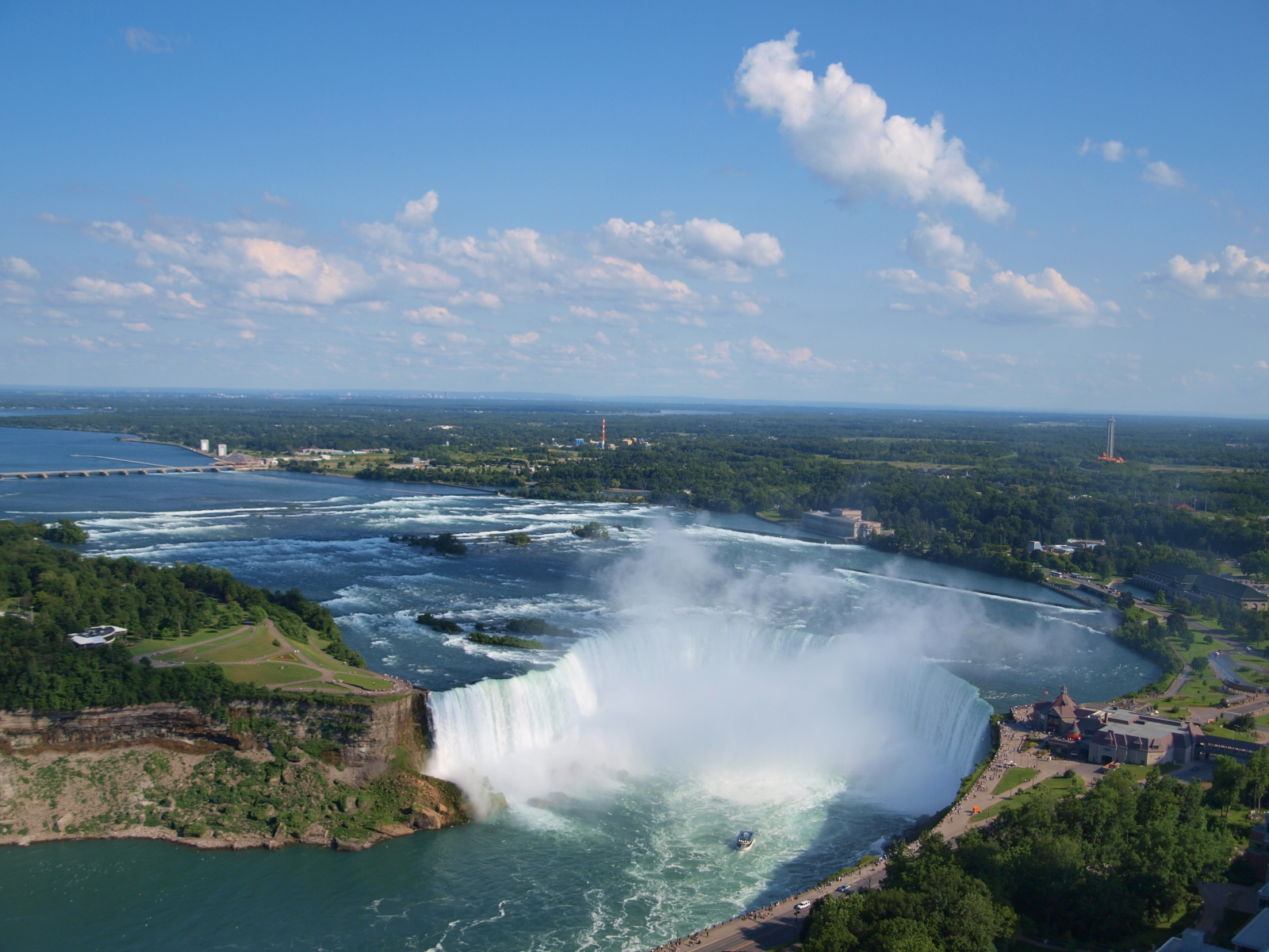 Canadian Horseshoe Falls. Clicked from Skylon Tower, Niagara Falls, Canada.